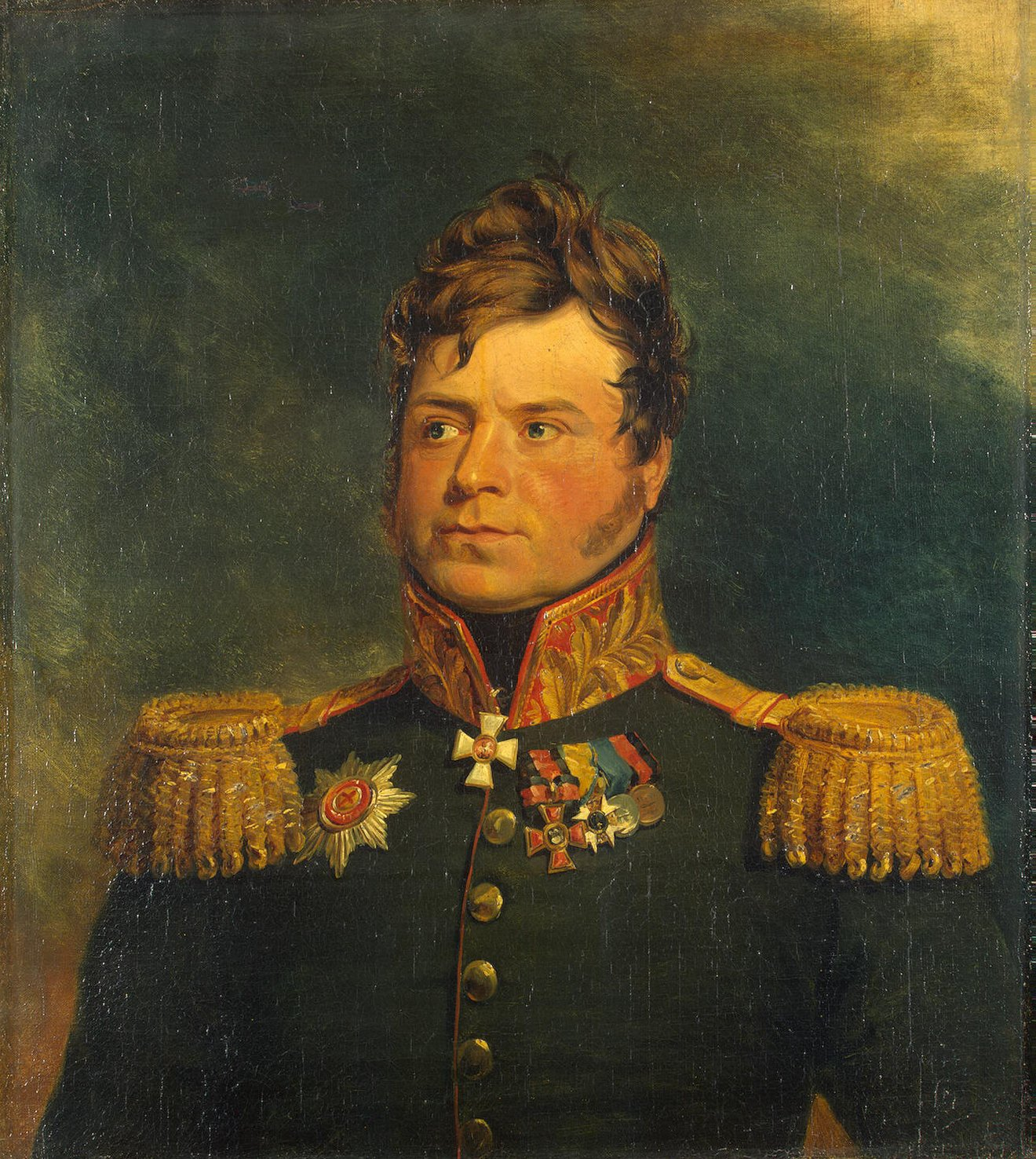 Alexandr Karlovich Ridinger (17.10.1782 – 25.09.1825) russian general.